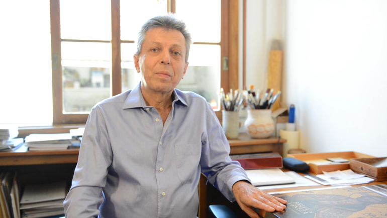 Cláudio Pastro